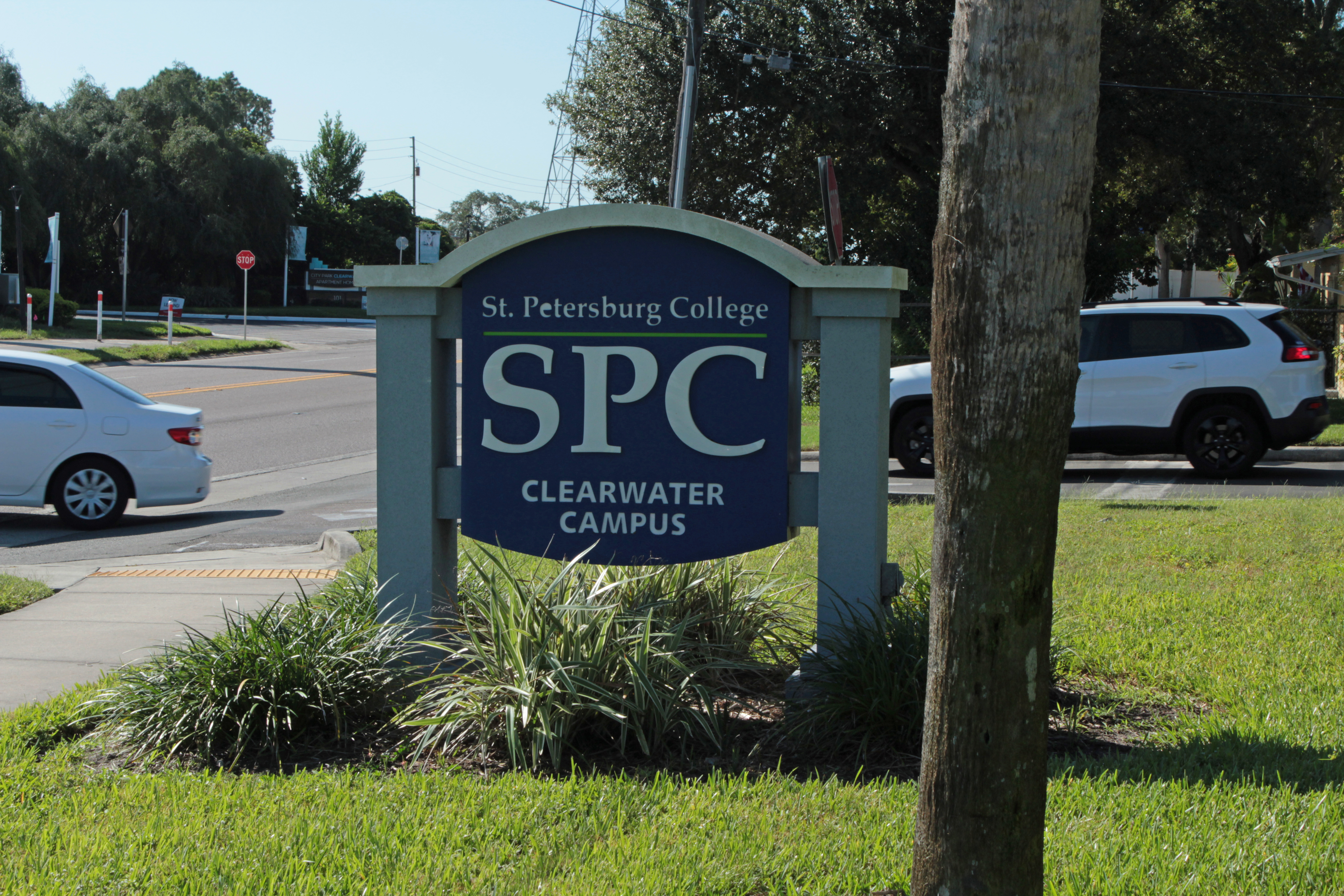 A sign for the St. Petersburg College (SPC) Clearwater Campus in Clearwater, Florida. Old Coachman Rd. is visible on the left side of the image.